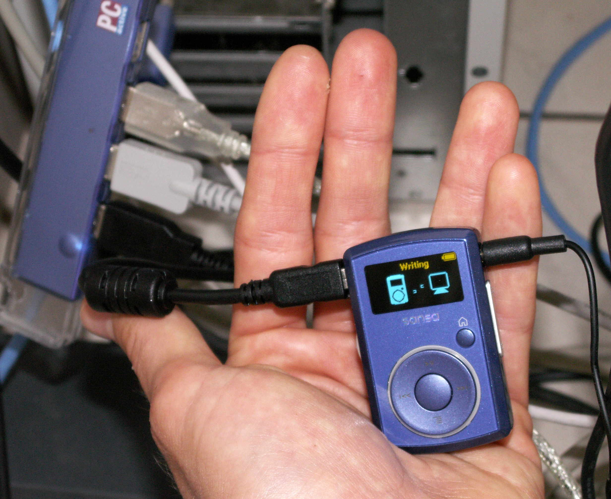 A picture of a sandisk sansa clip digital audio player. This player is relatively cheap (around 50€ for a 2gig version in Europe) and is able to play OGG-Vorbis files. It is also equipped with a non-detachable battery, which is recharged by USB-cable so that there is not much hassle with dry cells (unlike in other similar devices). If one decides 2gig is not enough, consider buying a secondhand PDA (these generally cost also only around 75-100€ (at present, the same price as a 4gig-DAP).